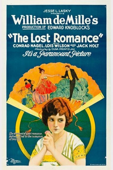 Poster for the American drama film The Lost Romance (1921) with Lois Wilson.